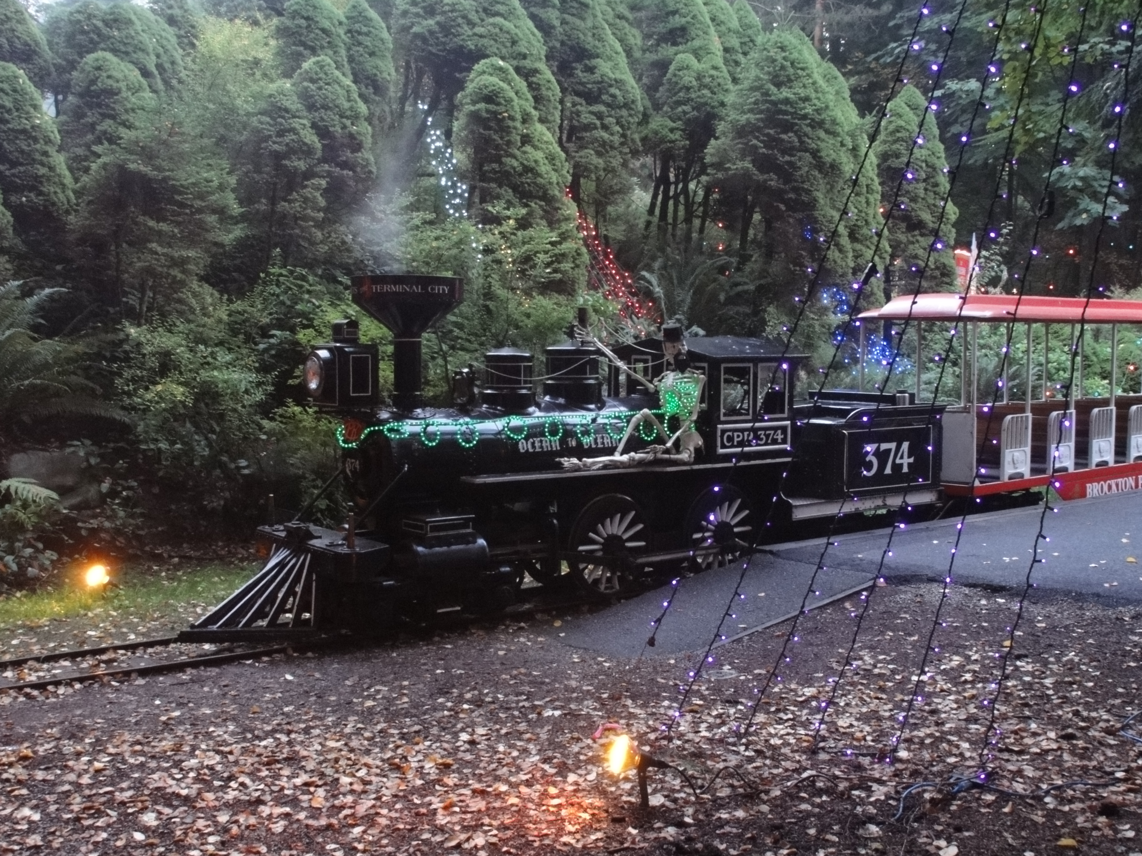 This is a part of a miniature railway in Vancouver's Stanley Park. The train is a replica of Locomotive Engine #374, which pulled the first transcontinental passenger train into Vancouver in the 1880s.